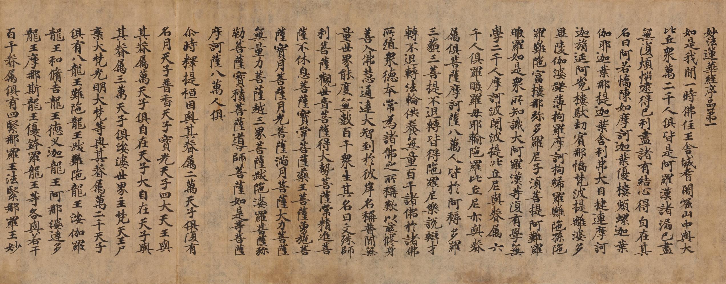 Lotus Sutra, Horyuji Treasures N-12, Tokyo National Museum, Japan